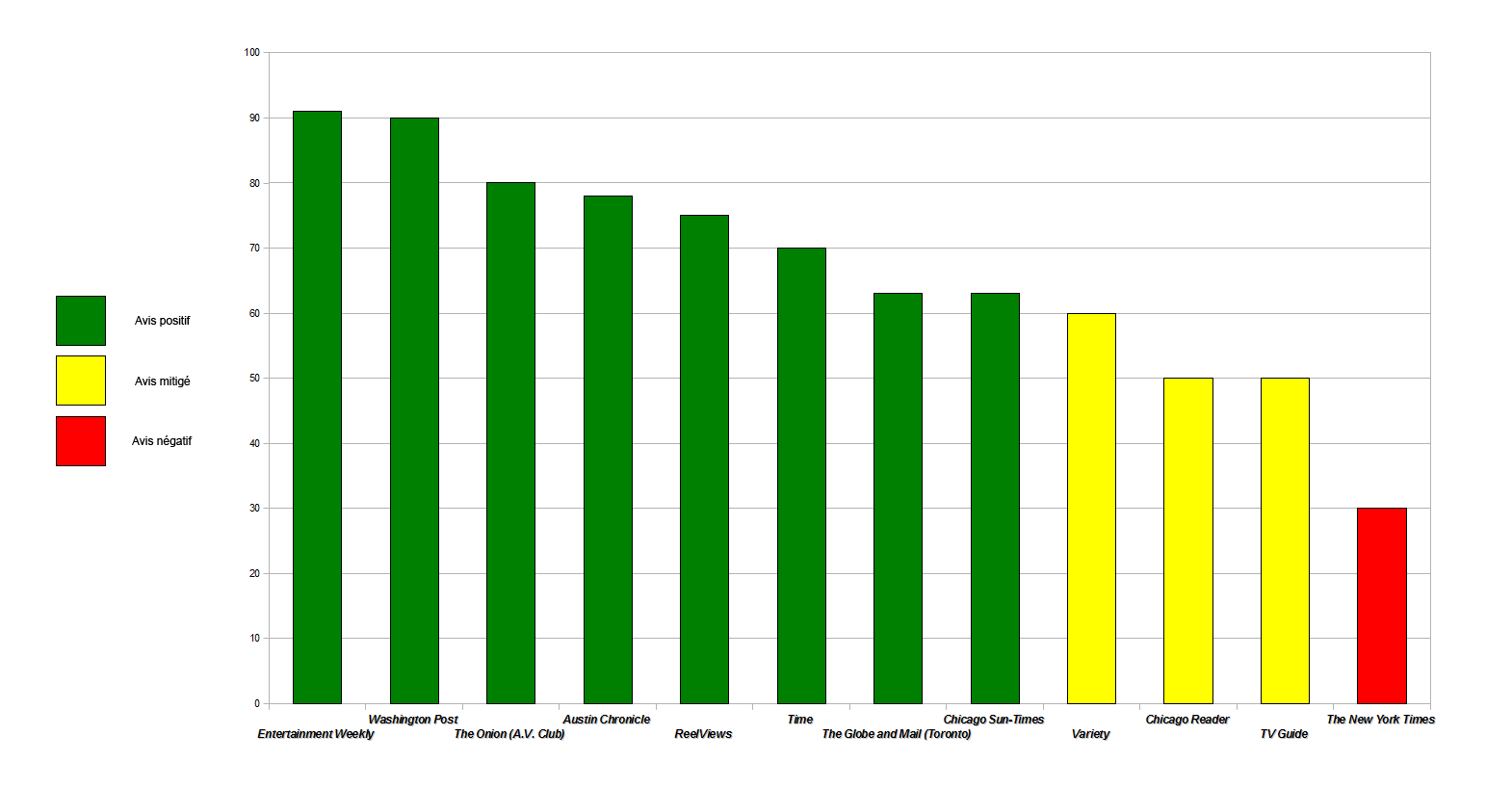 Chart of the 12 notes from the english speaking press for Léon on .